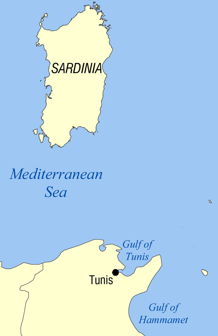 Strait of Sardinia map